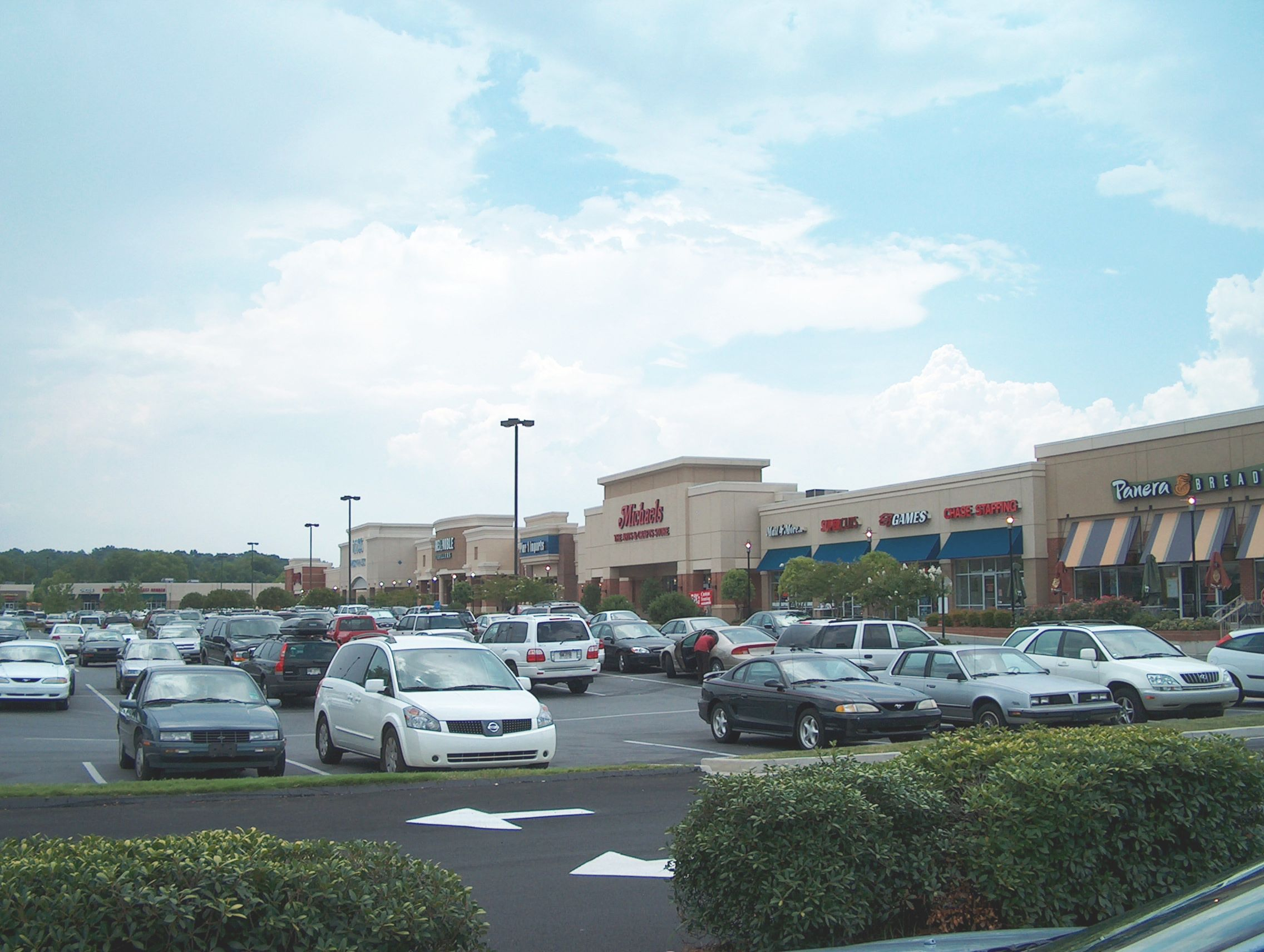 New Riverbend Mall in Rome, Georgia (taken by Cculber007 on August 10, 2006)